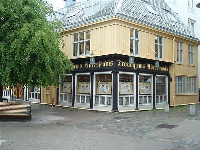 Old office of Adresseavisen, newpaper of Trondheim Norway, situated in Nordre gate, the city main street